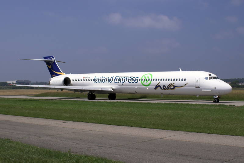 Hello MD-90-30 HB-JIE operating for Iceland Express